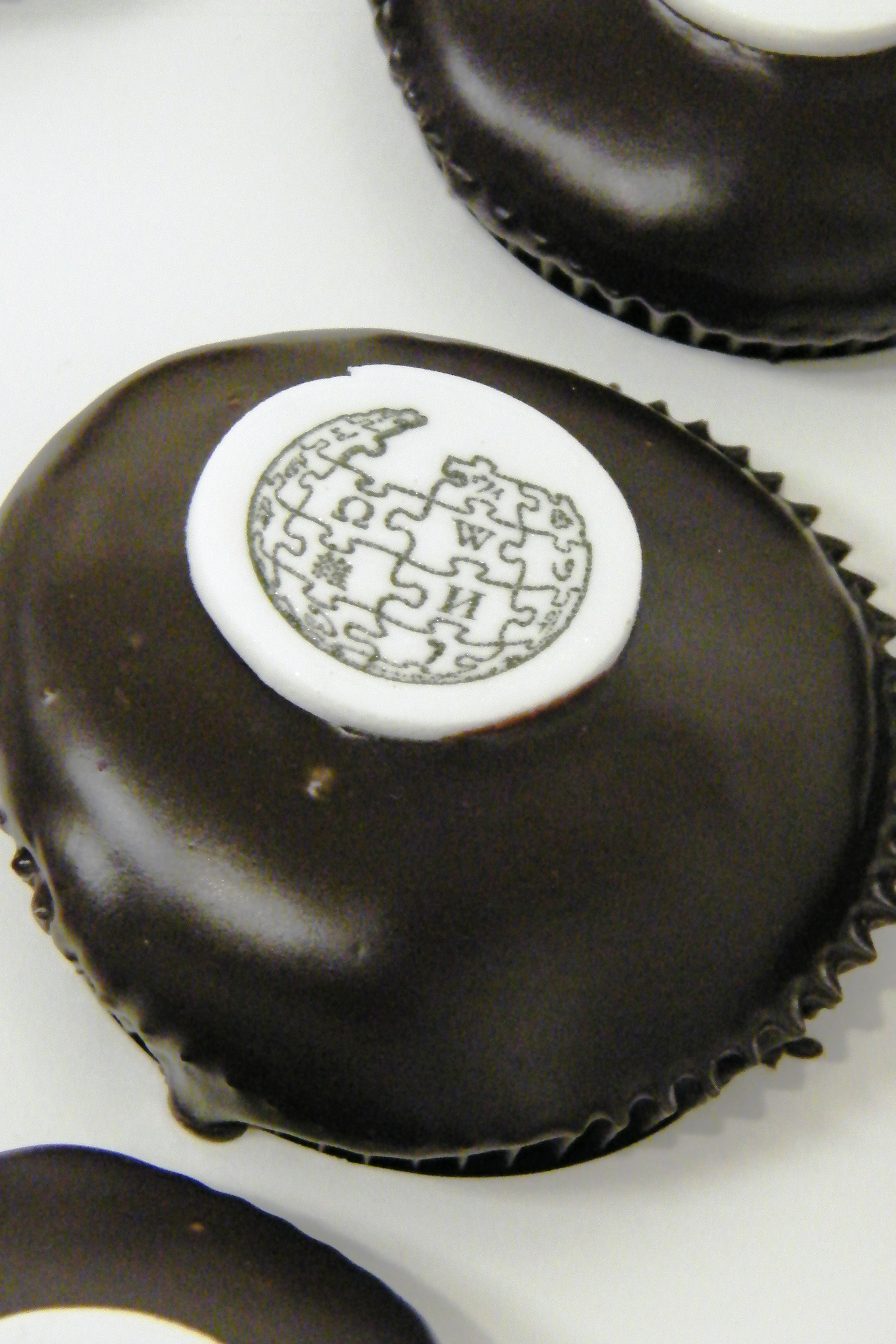 Wikipedia cupcakes, an in-kind donation by Georgetown Cupcake before being devoured by Wikipedians.